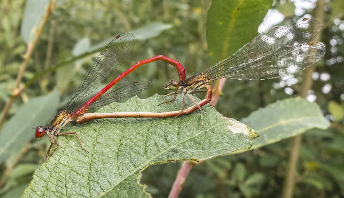 Ceriagrion tenellum copula in the Armenveen/Haaksbergerveen, The Netherlands